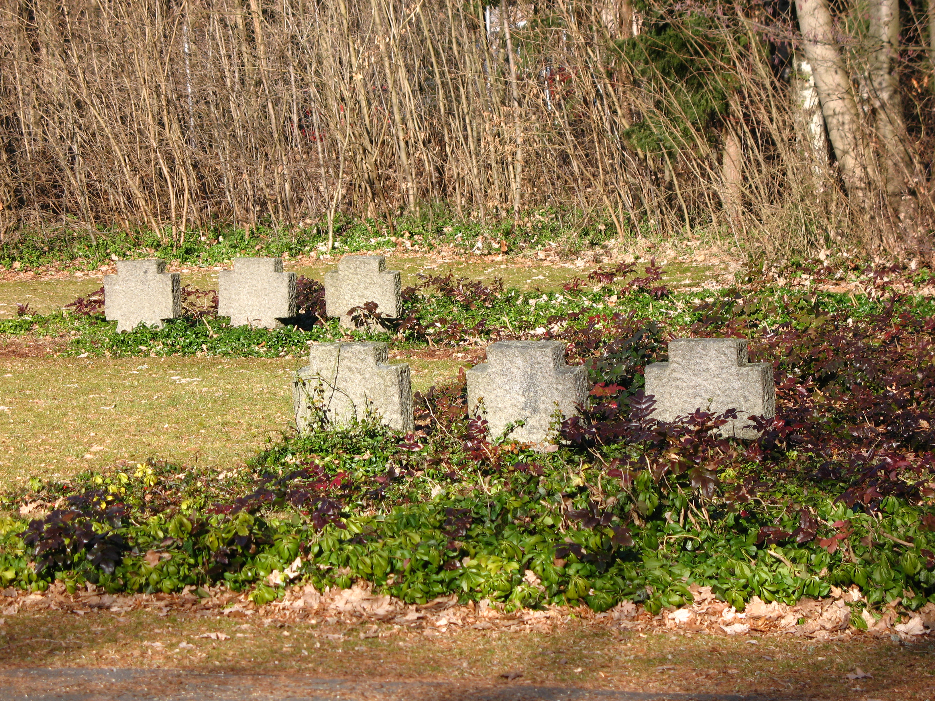 Steinkreuze auf dem Ehrenfriedhof der KZ-Gedenkstätte Flossenbürg/Crosses at the cemetary of Honor at the memorial place of the former concentration camp Flossenbürg